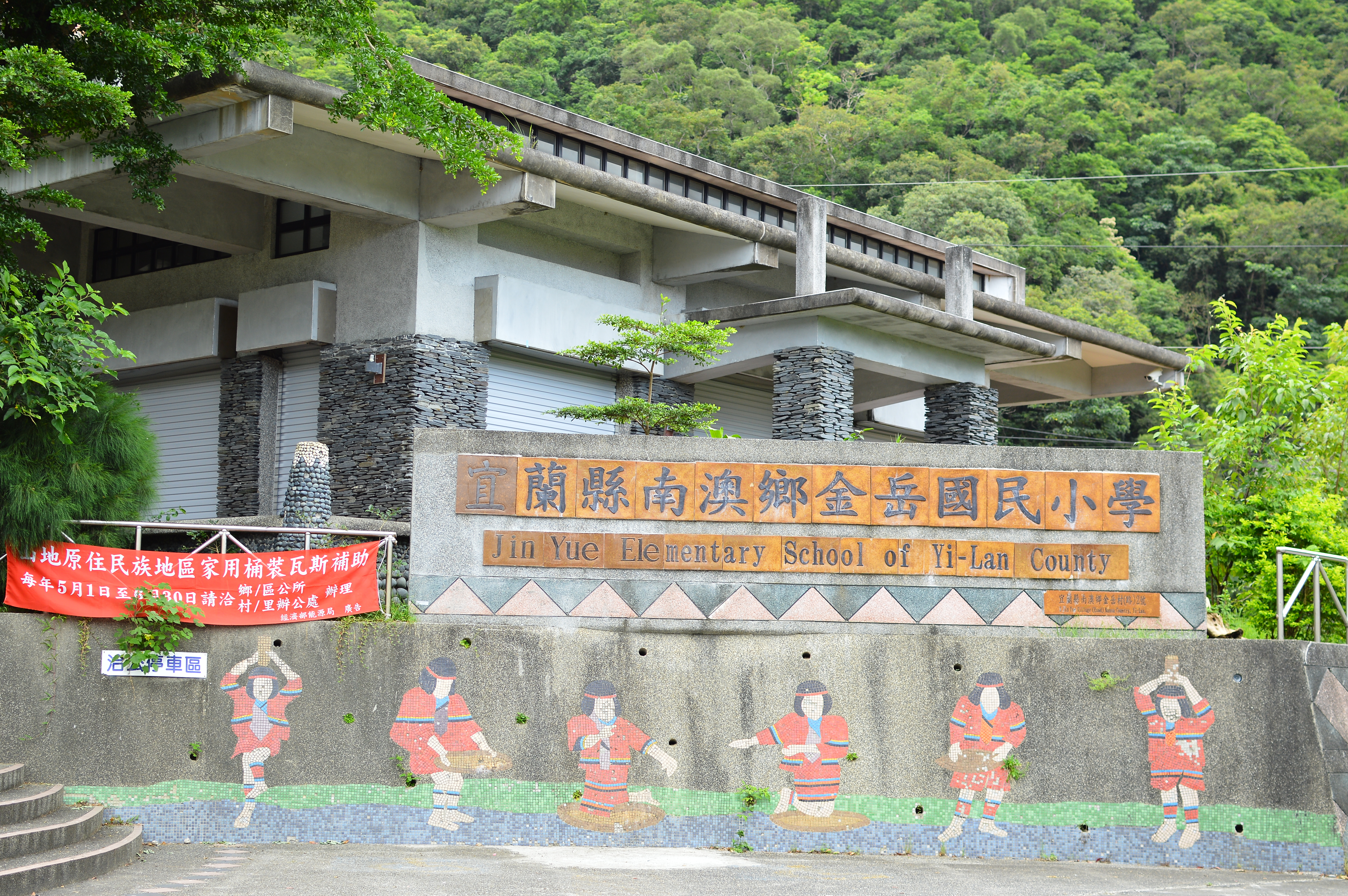 中文（台灣）: 宜蘭縣南澳鄉金岳國小2017 Jin Yue Elementary School of Yilan County